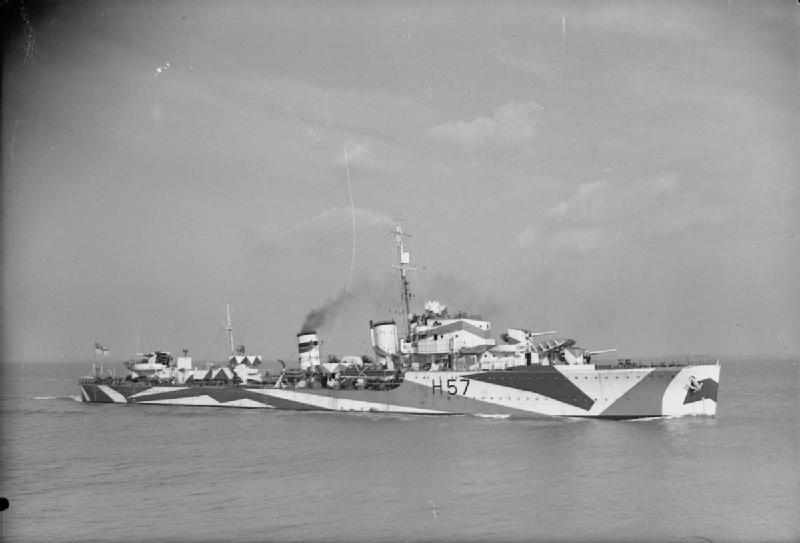 Photograph of British destroyer HMS Hesperus.